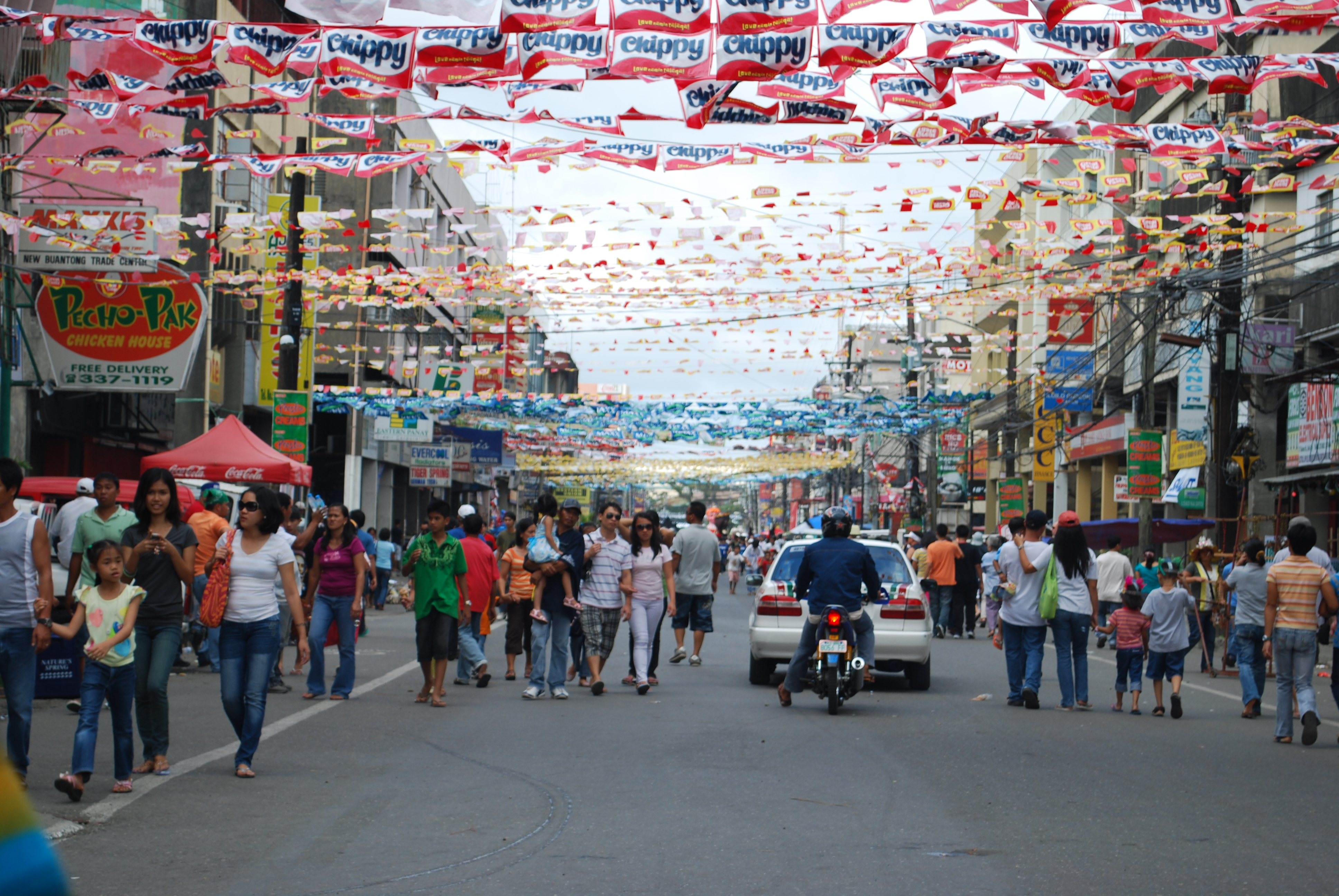 A street lined with colorful advertisement-banners during the Dinagyang Festival in Iloilo City, Philippines. Tagalog: Isang kalsadang nakarangya ng makukulay na mga banderang komersiyal noong Pista ng Dinagyang sa Lungsod ng Iloilo, Pilipinas